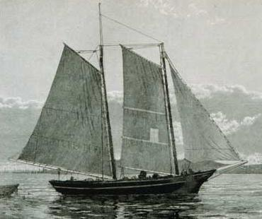 Two-masted fishing schooner from the GIMP public domain photo library